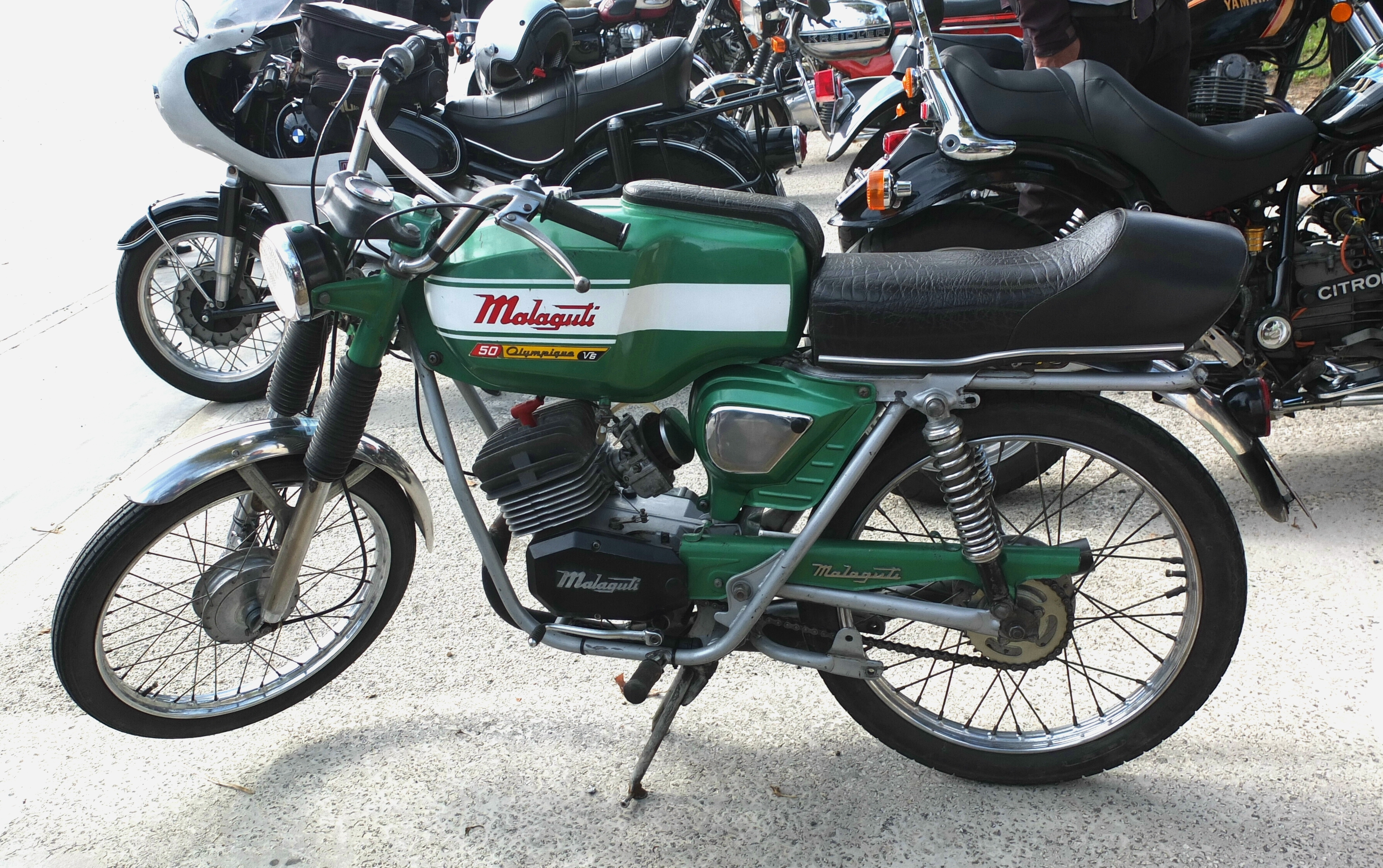 Malaguti "Olympique", built 1976, 50 cm3. Seen at the vintage car and motorbike meeting in Canet-Plage, France.